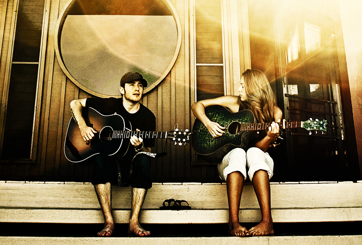 Musicians Jason Reeves and Colbie Caillat play together in Hanalei Bay, Hawaii.